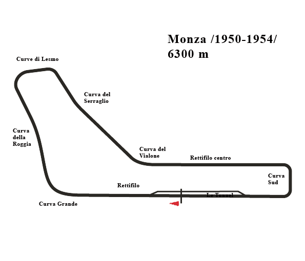 Diagram of the Autodromo Nazionale di Monza after modified in 1950, hosted the Formula One World Championship Italian Grand Prix from 1950 to 1954